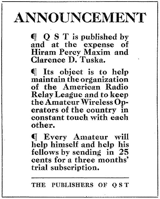 General announcement about the establishment of QST magazine